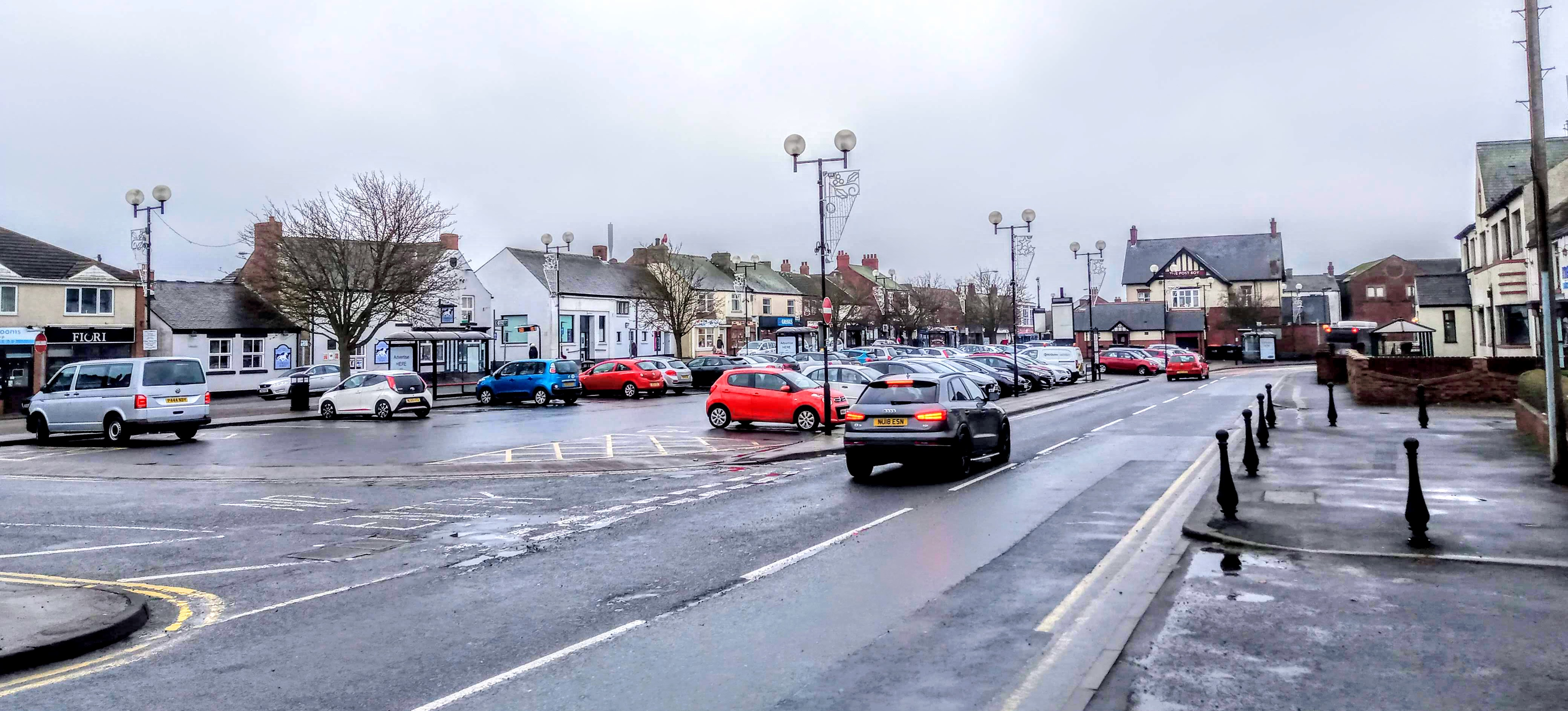 Ferryhill